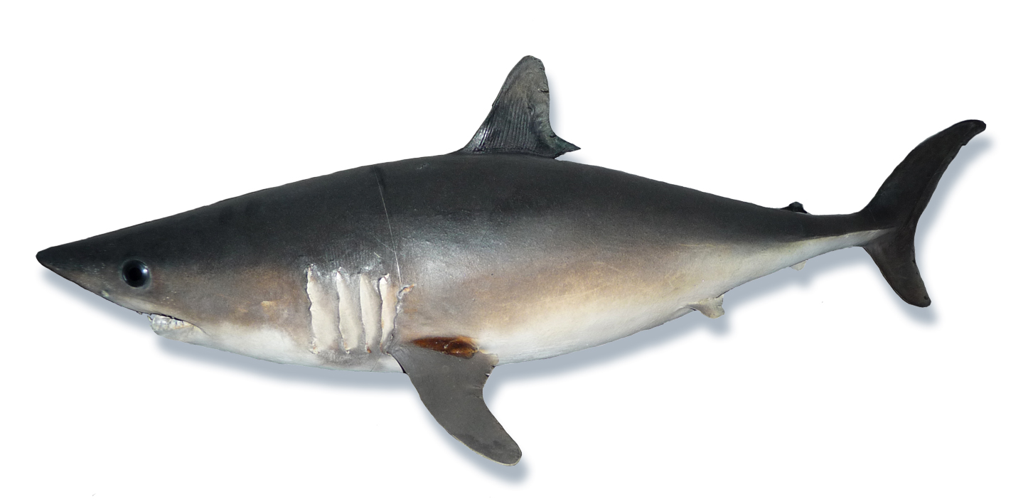 Lamna nasus